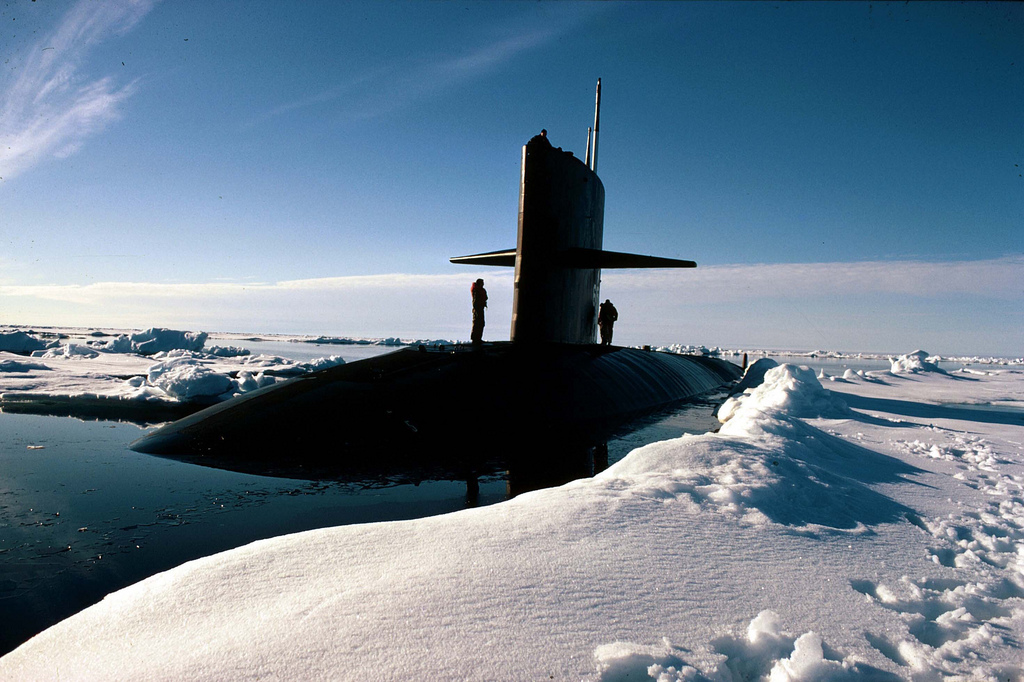 United States Navy attack submarine at the North Pole